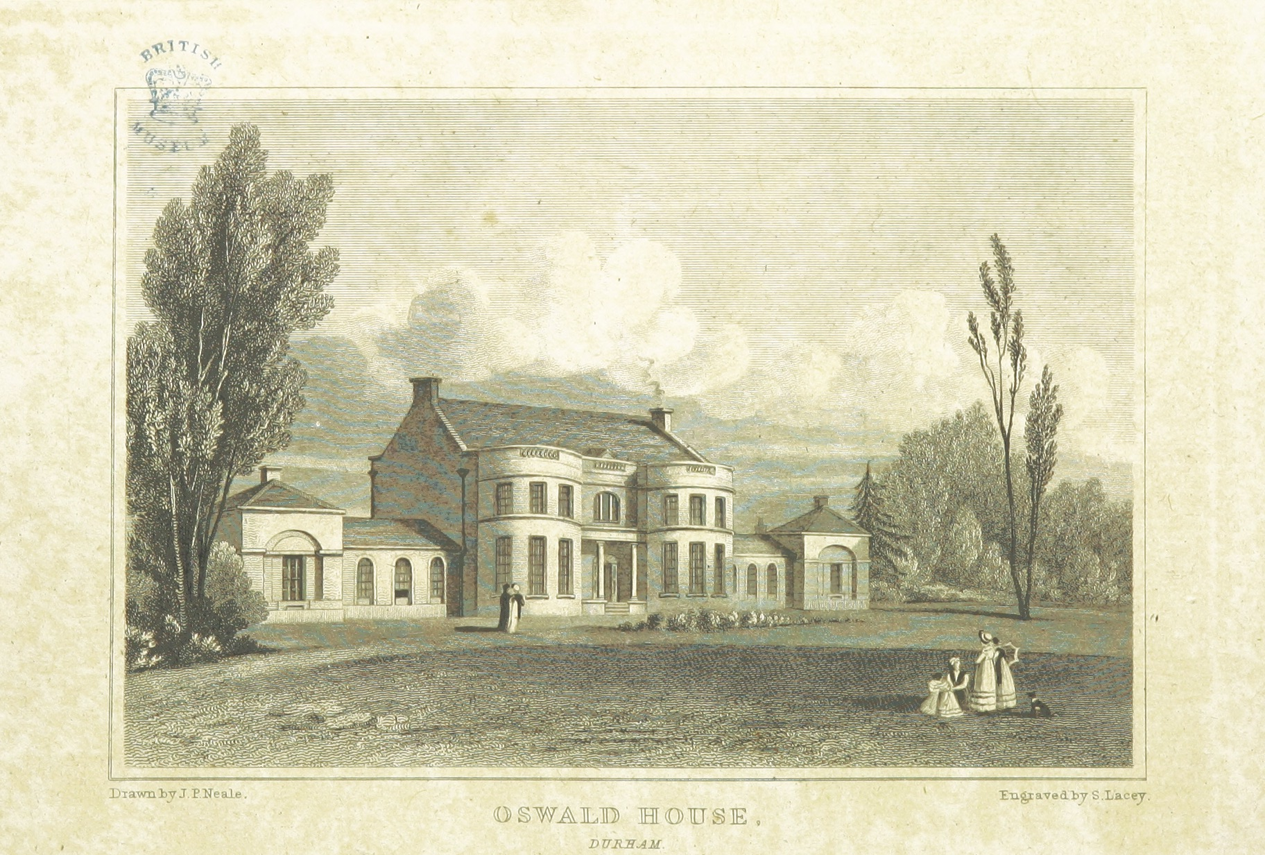 Oswald House, Durham. Built in about 1800 for John Richardby, a London merchant. Sold in 1806 to Thomas Wilkinson of Brancepeth, a former mayor of Durham. Sold again in 1828 to Wilkinson's cousin Rev Percival Spearman Wilkinson of Belmont, who had architect Phillip Wyatt convert the house into a full-scale mansion, Mount Oswald. The house has been the home of Durham City Golf Club since 1928, but (as of 2014) there are proposals to redevelop the site for housing. [1]